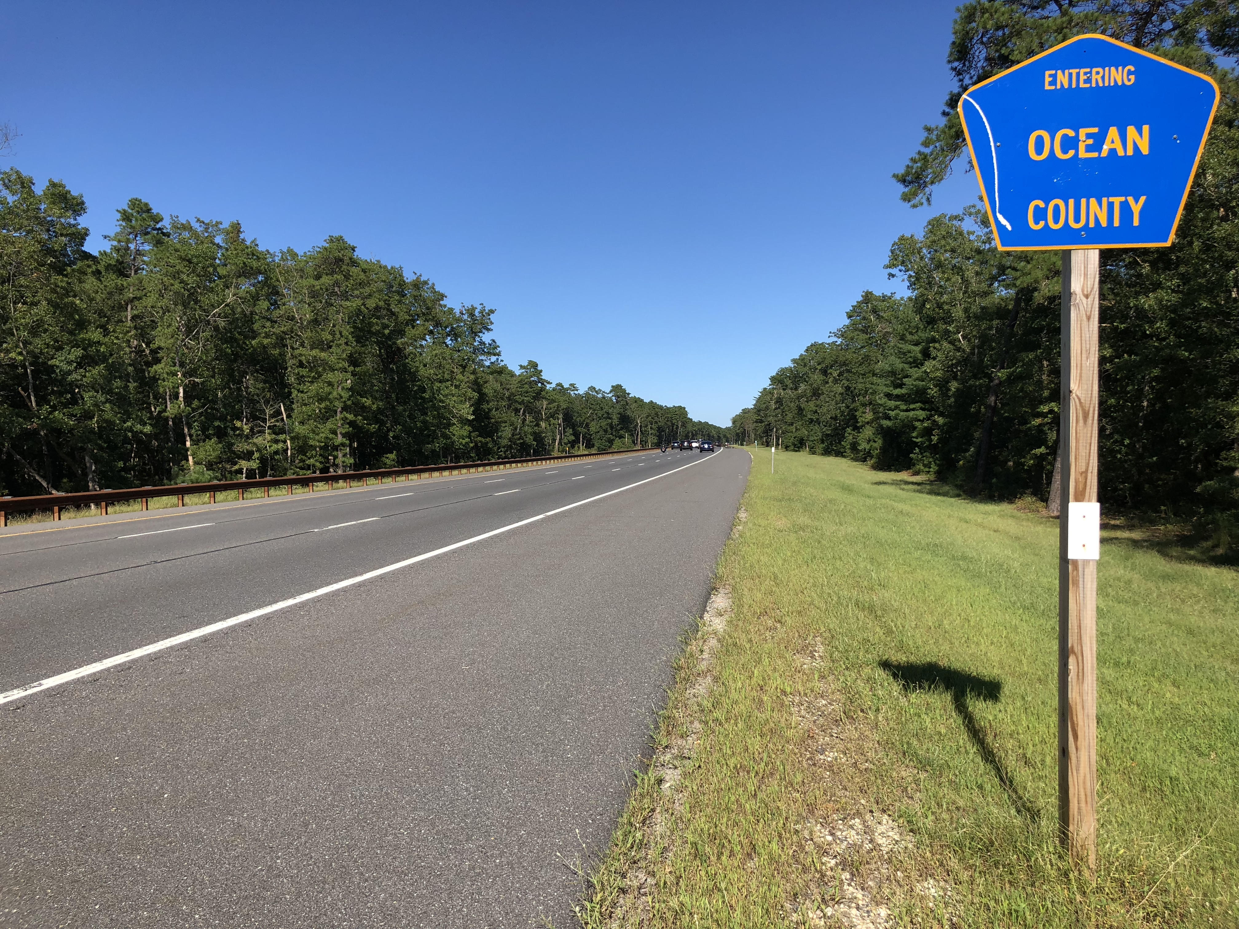 View north along New Jersey State Route 444 (Garden State Parkway) between Exit 50 and Exit 58, entering Little Egg Harbor Township, Ocean County from Bass River Township, Burlington County in New Jersey